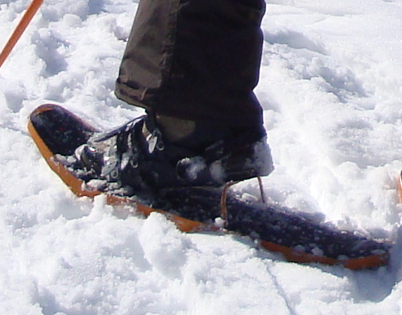 A heel raiser bar on a snowshoe, used for ascending steep slopes. Model: MSR Lightning Ascent